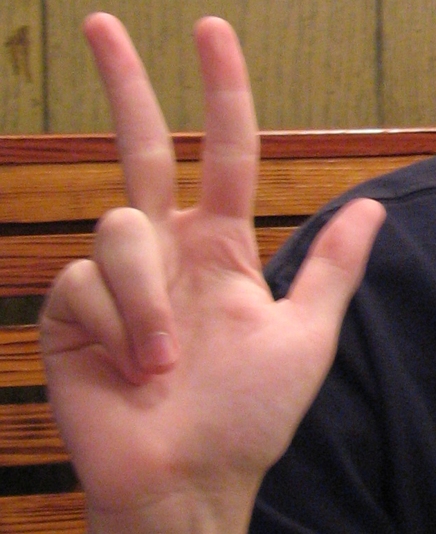 Serbian Trinity sign